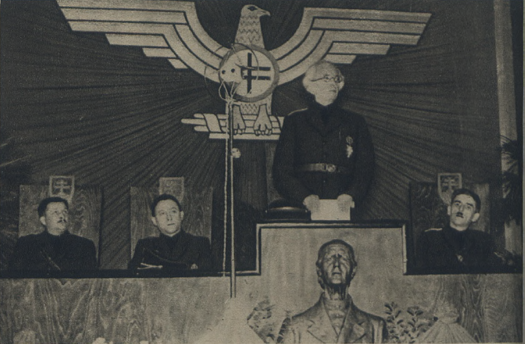 Vojtech Tuka speaking. Second from left is Karol Murgaš, Minister of Propaganda. First from right is the commander of the Hlinka Guard, Otomar Kubala.